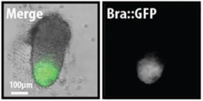 A Gastruloid generated from Brachyury::GFP mouse ESCs and imaged at ~120h by fluorescence microscopy. Note the polarised gene expression at the extending tip of the Gastruloid